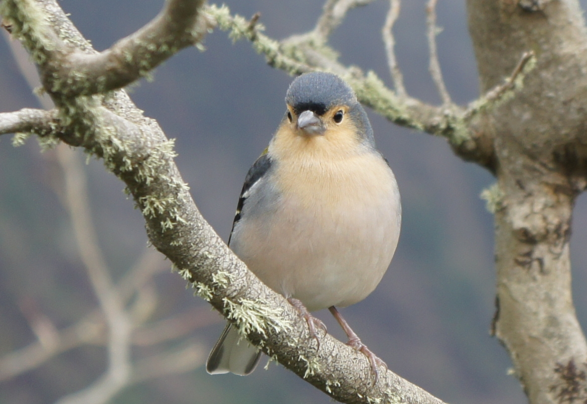 Madeira Chaffinch